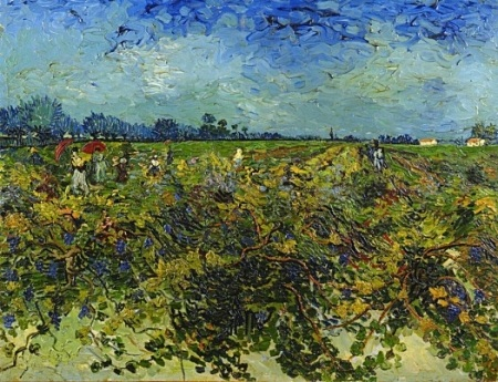 De groene wijngaard, Kröller-Müller Museum, 72x92 cm.